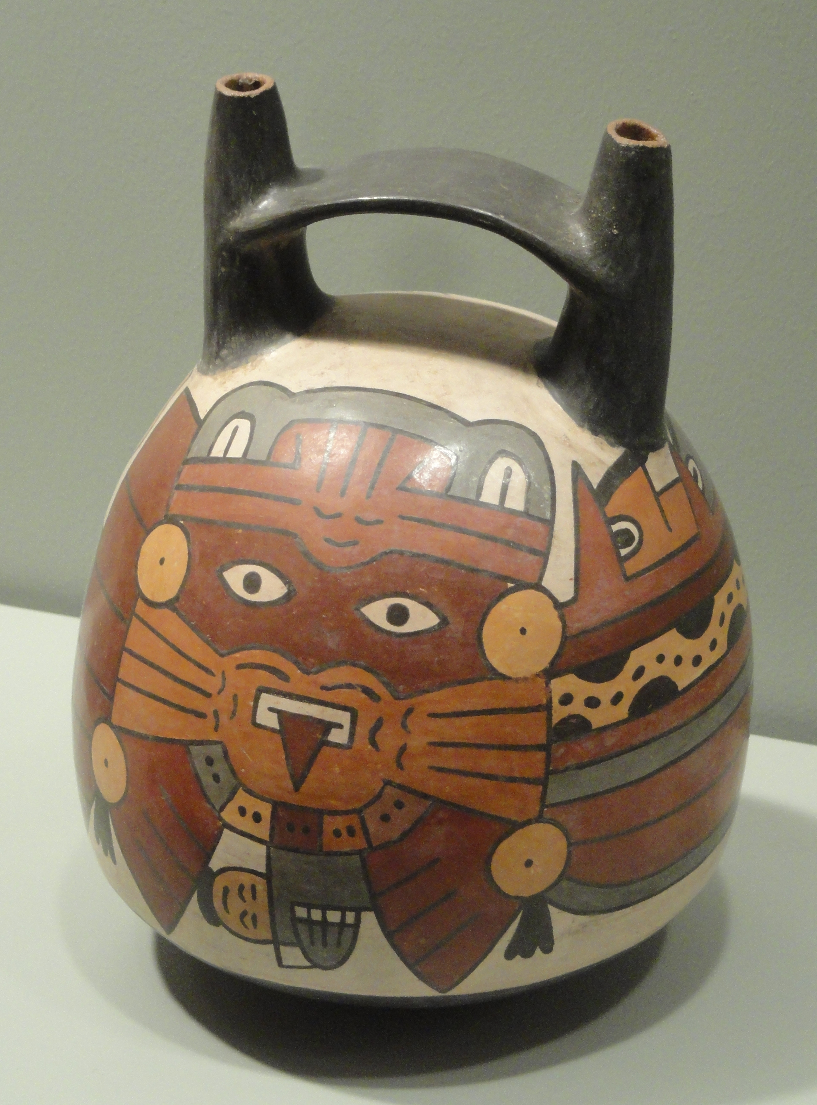 Exhibit in the Gardiner Museum, Toronto, Ontario, Canada. This artwork is in the public domain because the artist died more than 70 years ago.